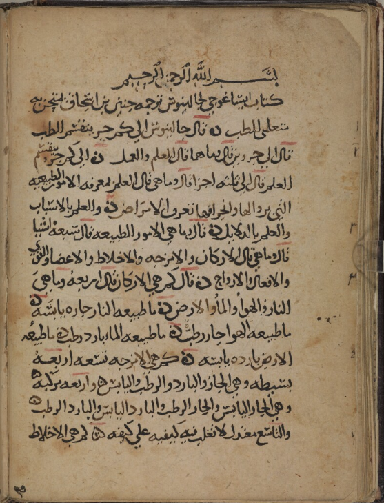 The record is made up of ff. 28r-55r. It was created in 711-712. It was written in Arabic. The original is part of the British Library: Oriental Manuscripts.